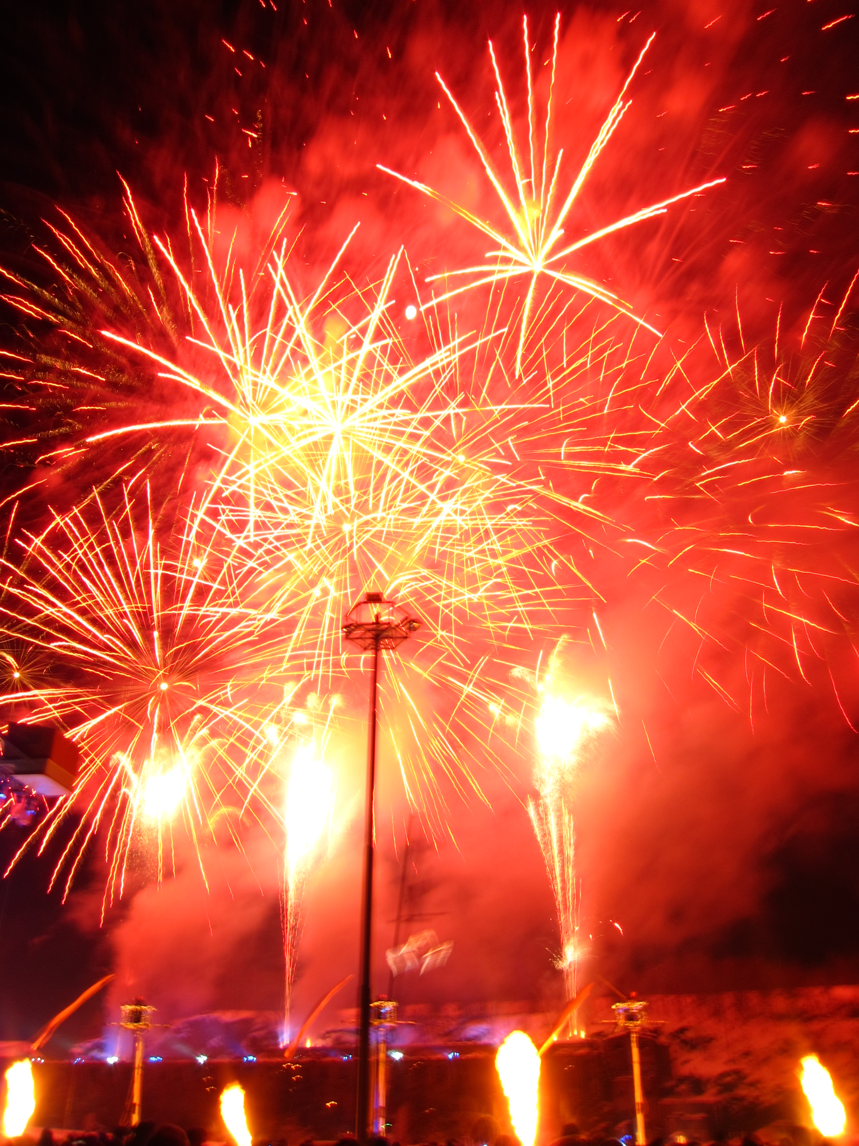 Turku 2011 (Turku European Capital of Culture 2011) opening ceremony This Side, The Other Side in Turku, Finland.